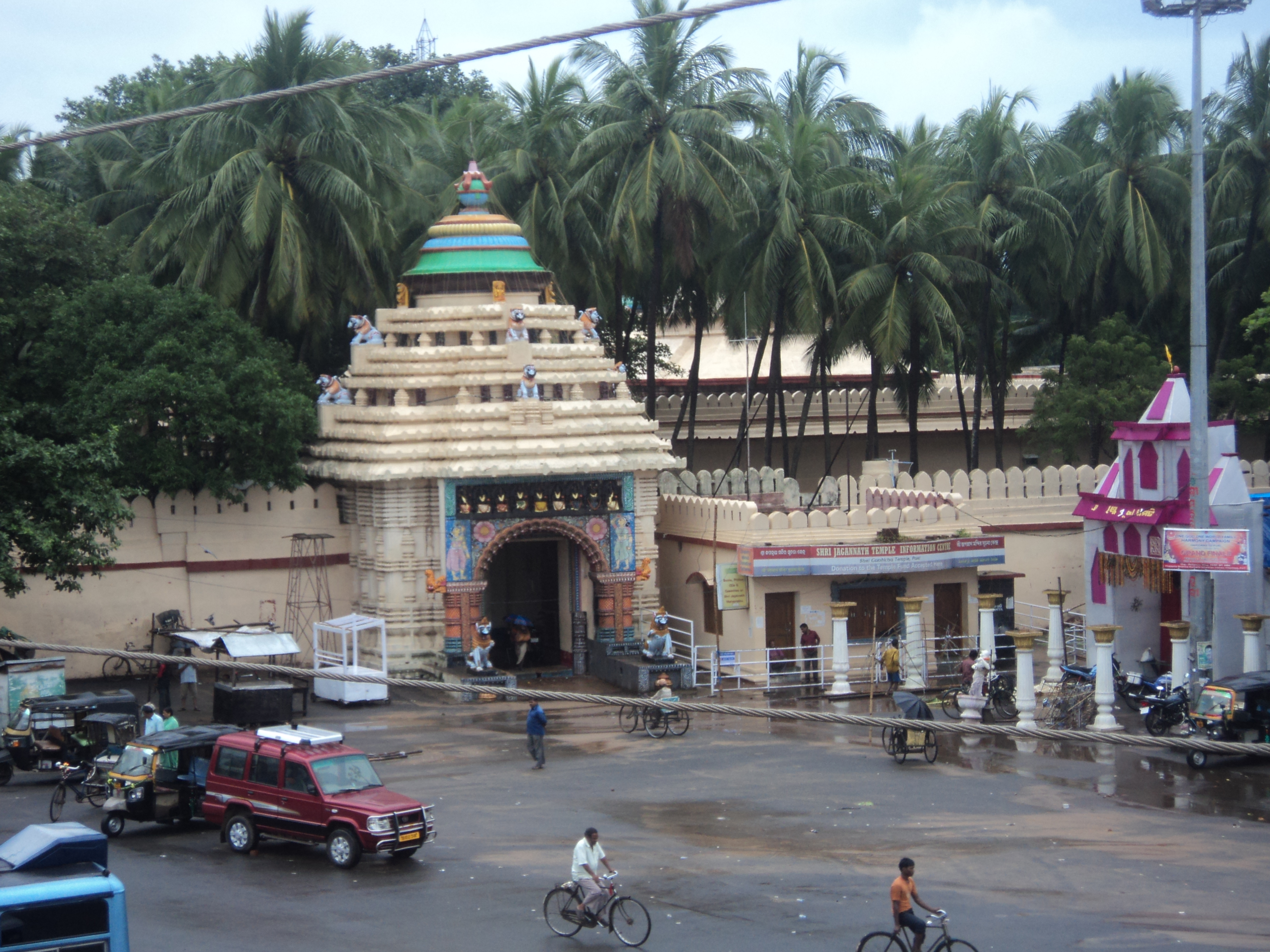 ଓଡ଼ିଆ: Gundicha Temple has some interesting legends related to it. One legend says that Gundicha was the queen of the King Indradyumna, the legendary founder of the 1st great Jagannath temple.